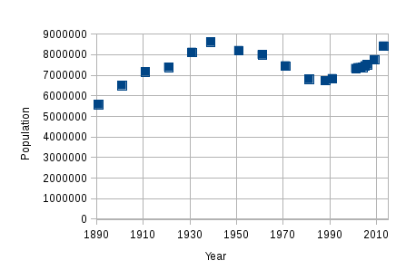 Population of Greater London (estimated)